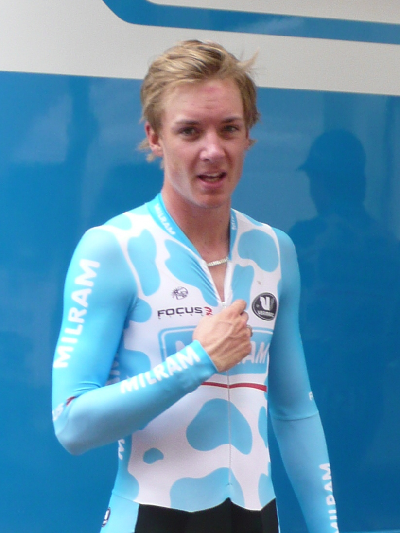 Dominik Nerz during the ENECO-tour 2010